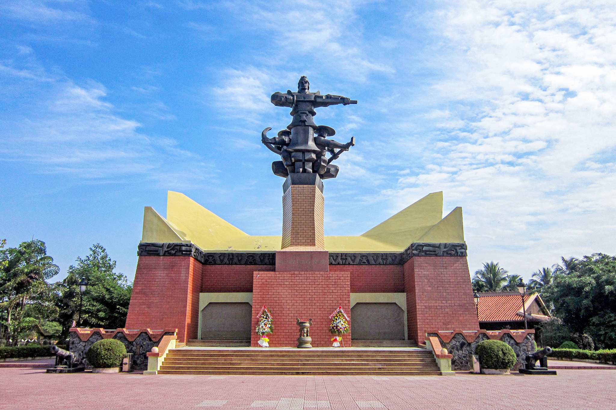 Monument to celebrate the victory of Rach Gam - Xoai Mut